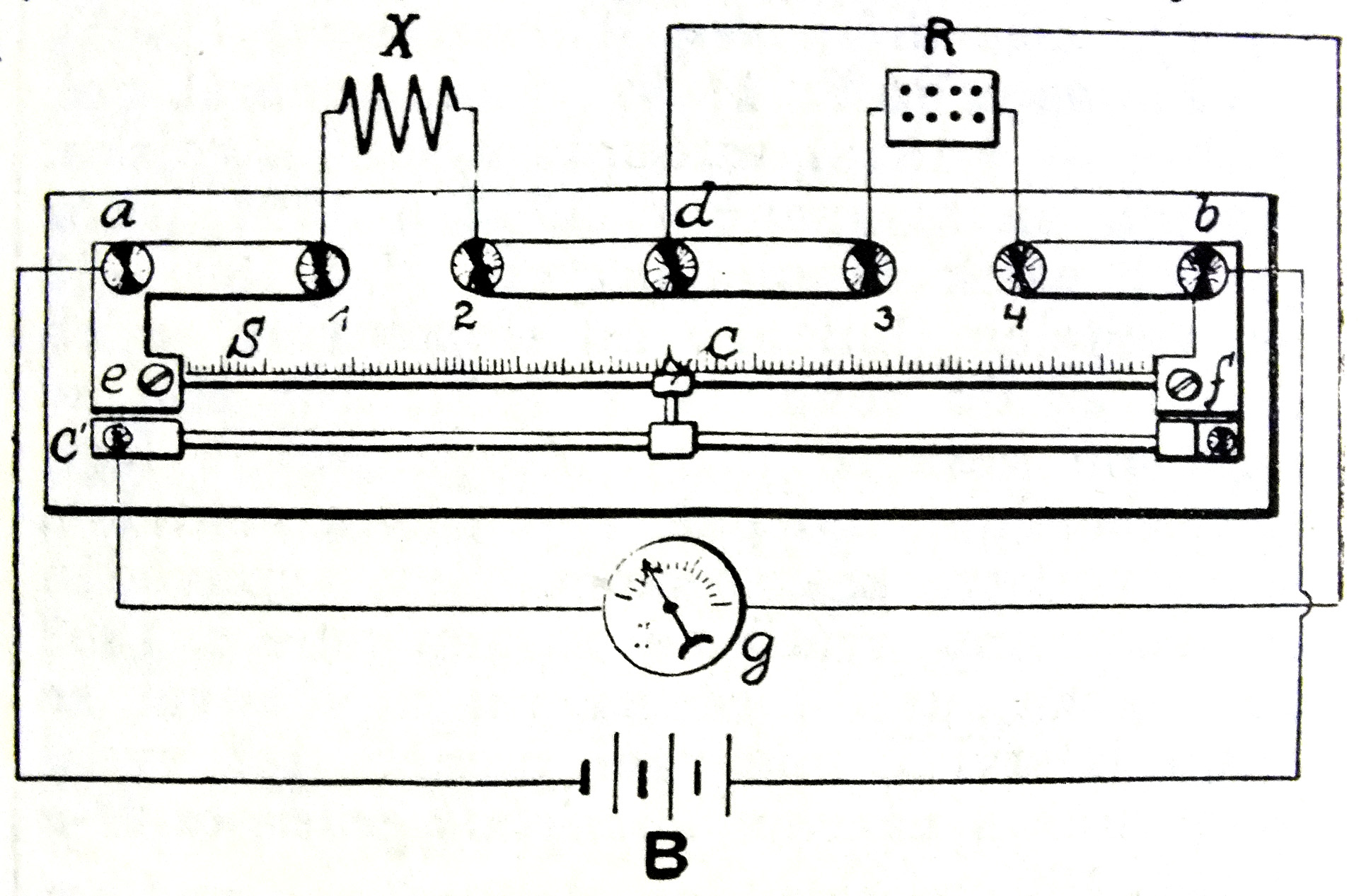 Wheatstone's bridge.